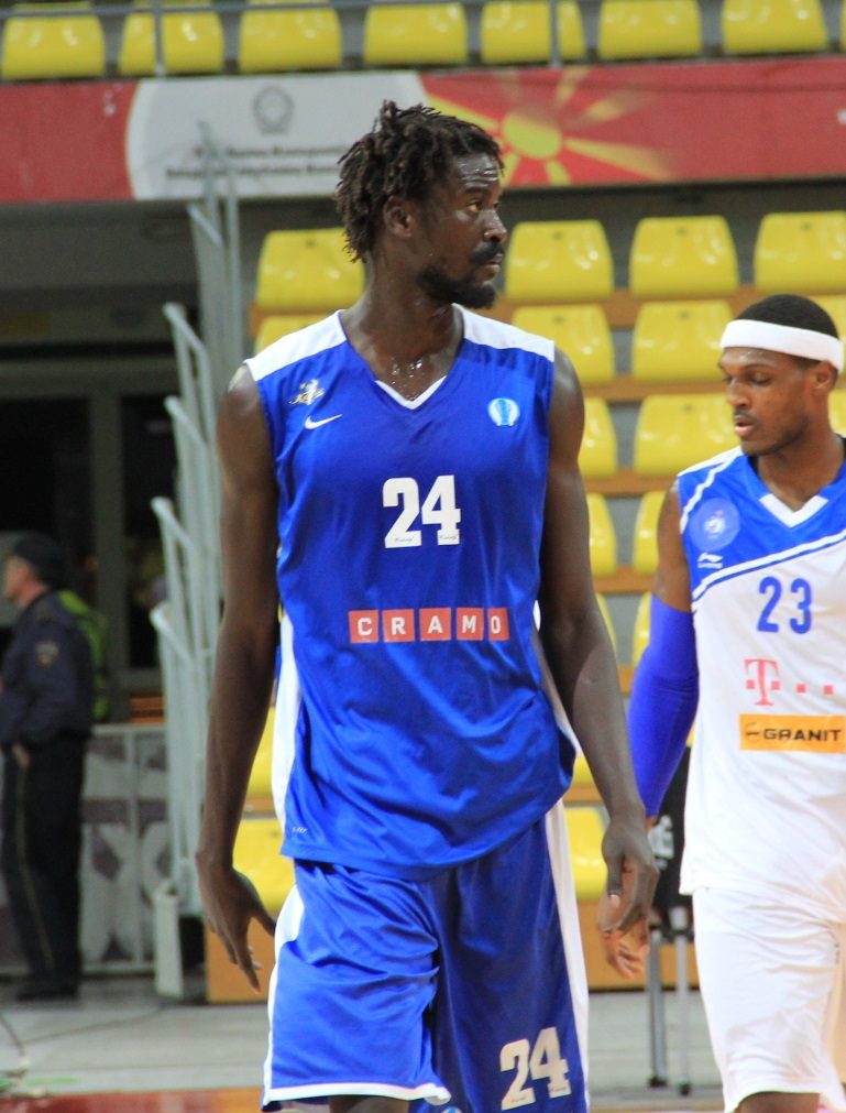 мзткалевфалл